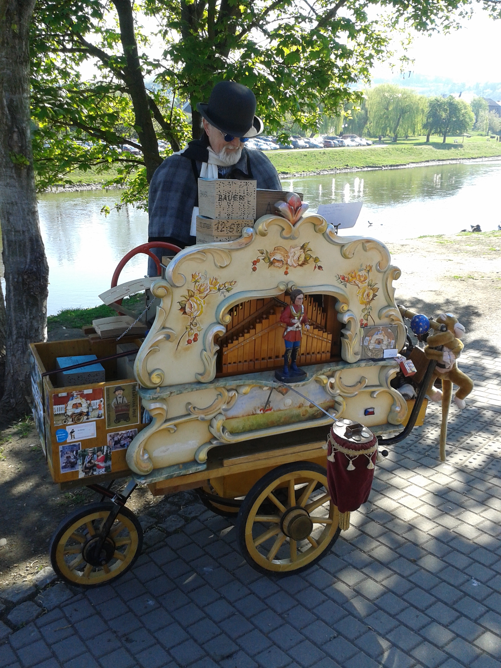 Prague Organist and his Barrel organ